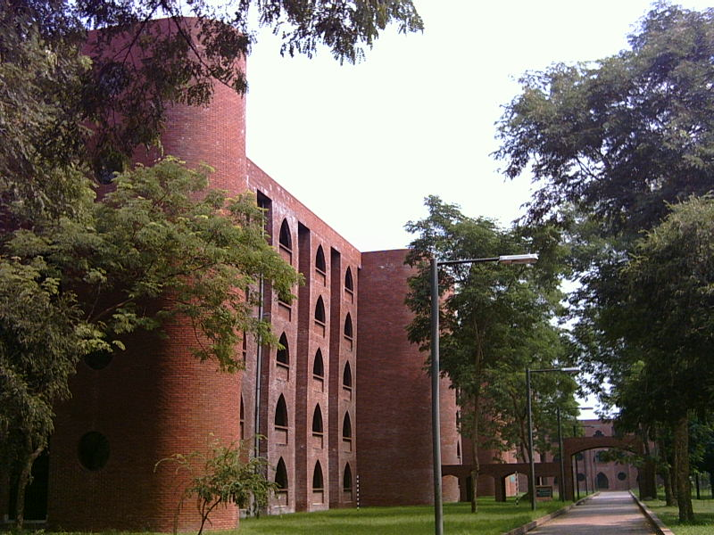 A picture of IUT North Hall of Residence